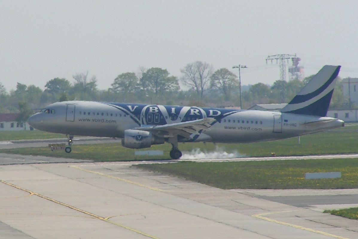 VBird Airbus A320-212 landing at Berlin-Schönefeld, photographed at Berlin, 28.04.2005